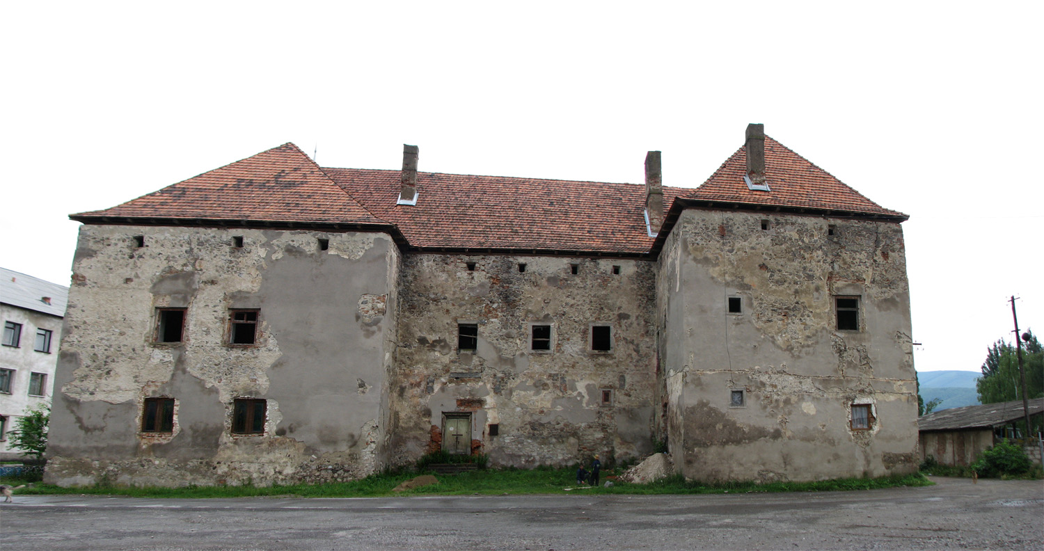 Chynadiiovo castle near town of Mukacheve, Ukraine.